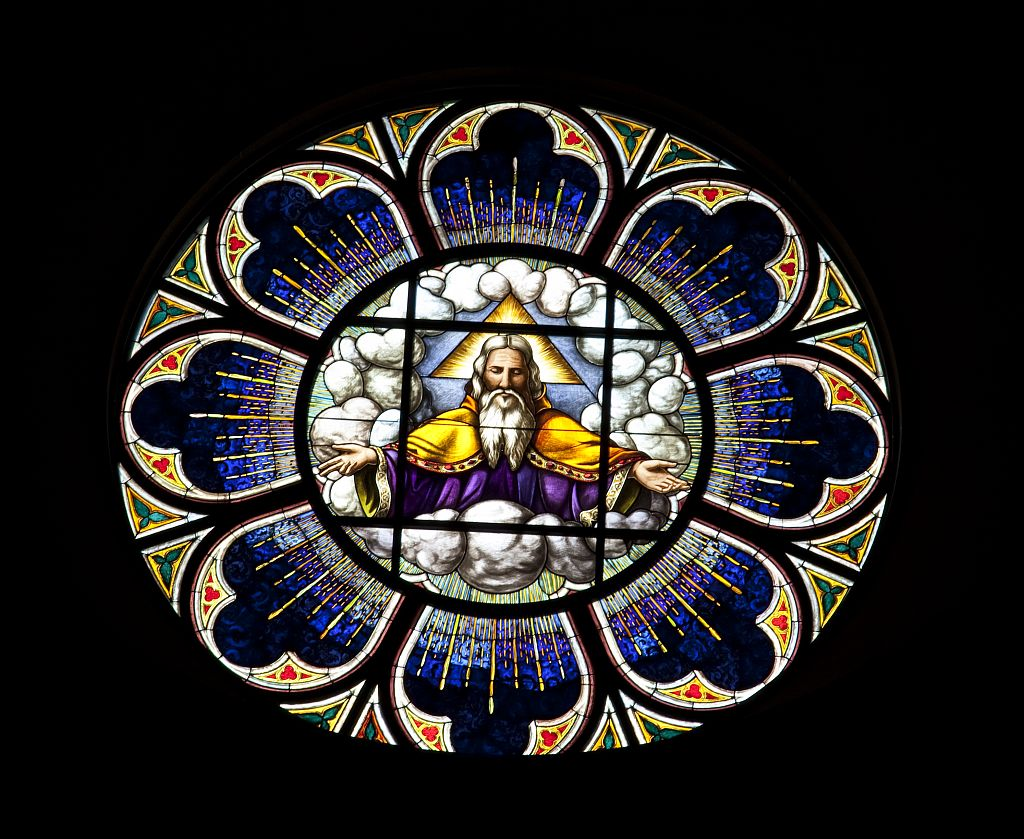 Shrine of the Most Blessed Sacrament of Our Lady of the Angels Monastery, Hanceville, Alabama